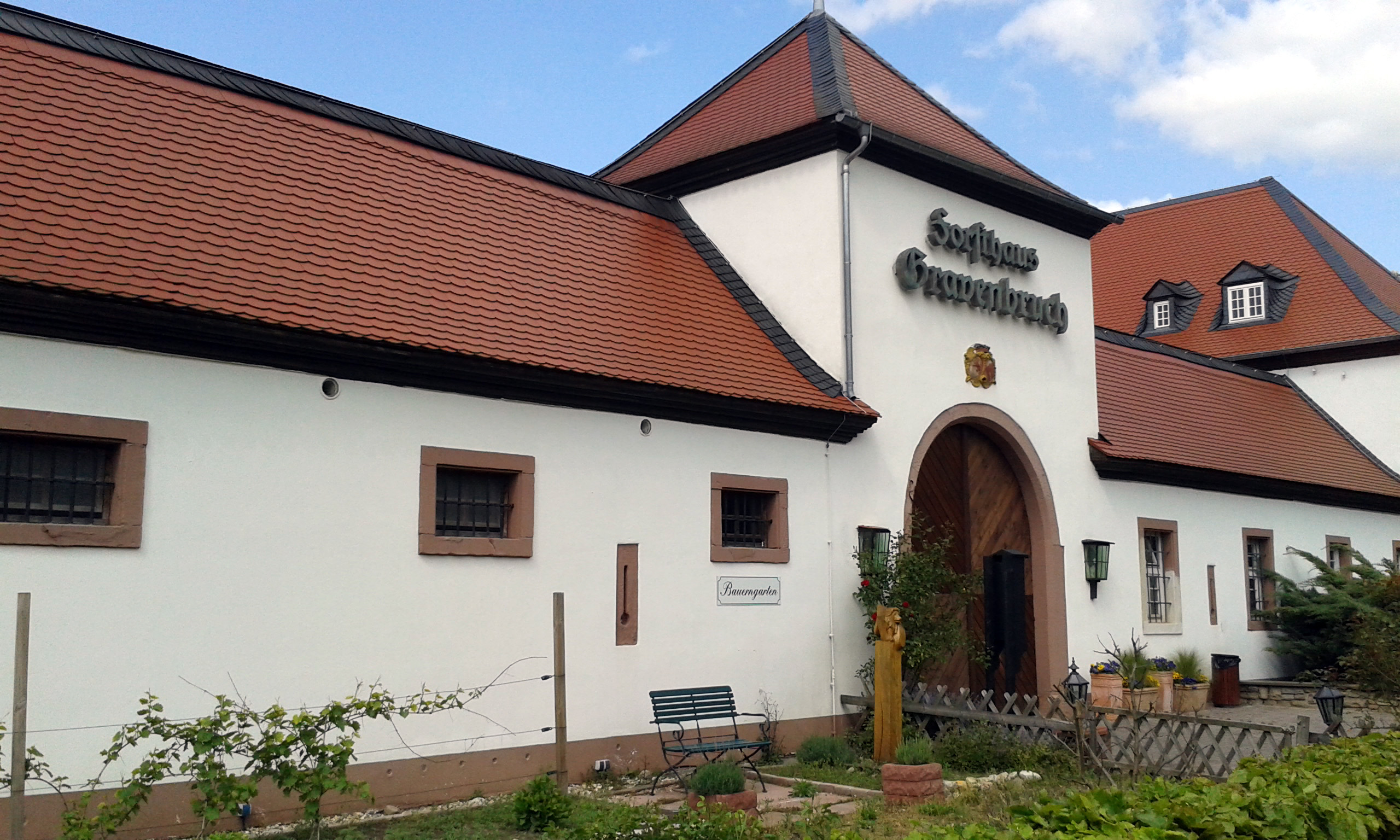 Torschänke 2016